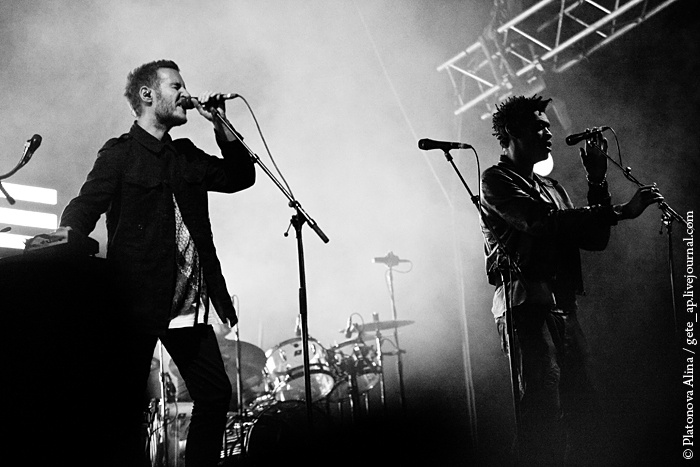 Massive Attack, September 26, 2010, concert at the Saint-Petersburg Sports and Concert Complex.